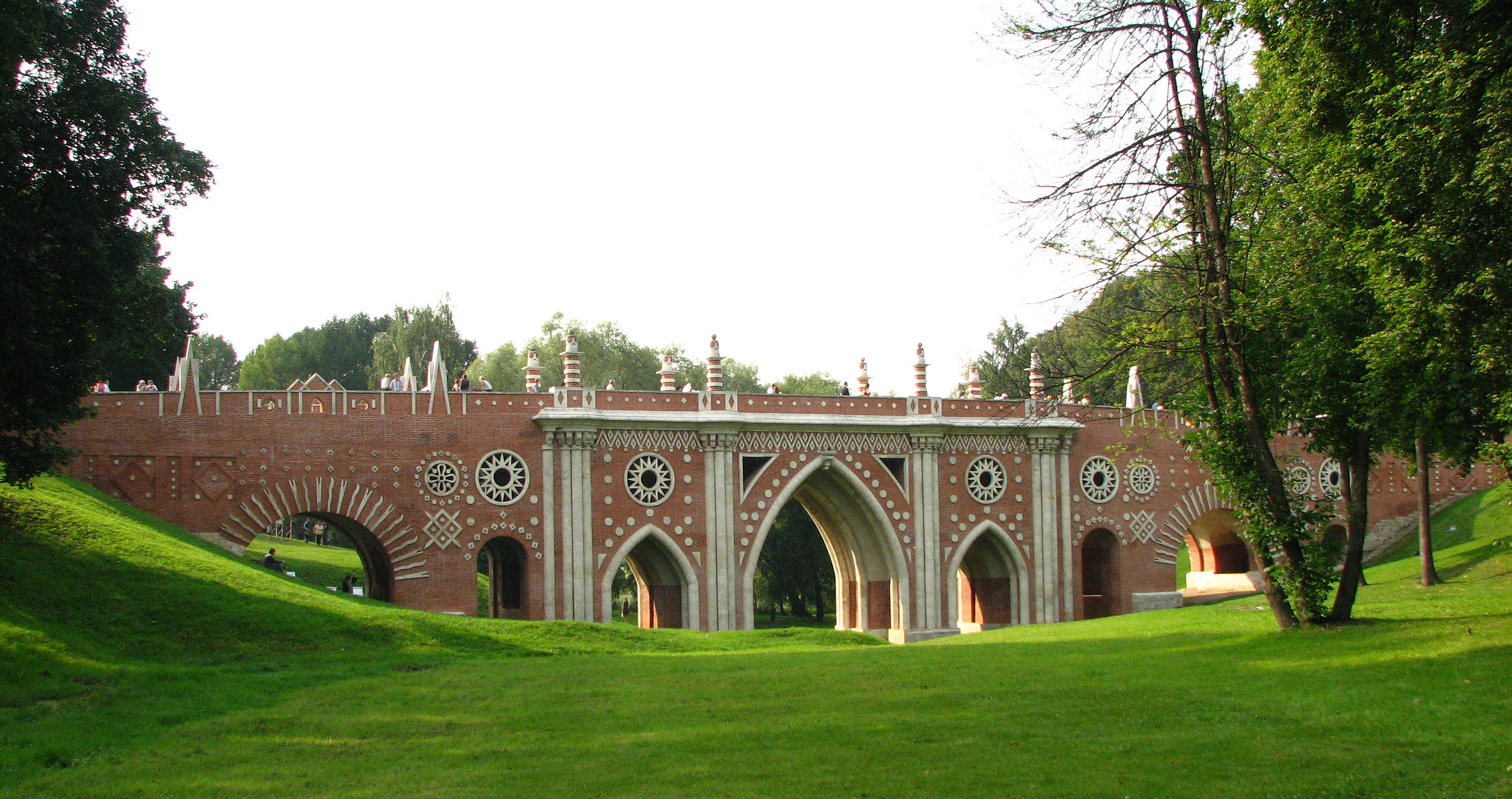 Tsaritsyno. Bridge.